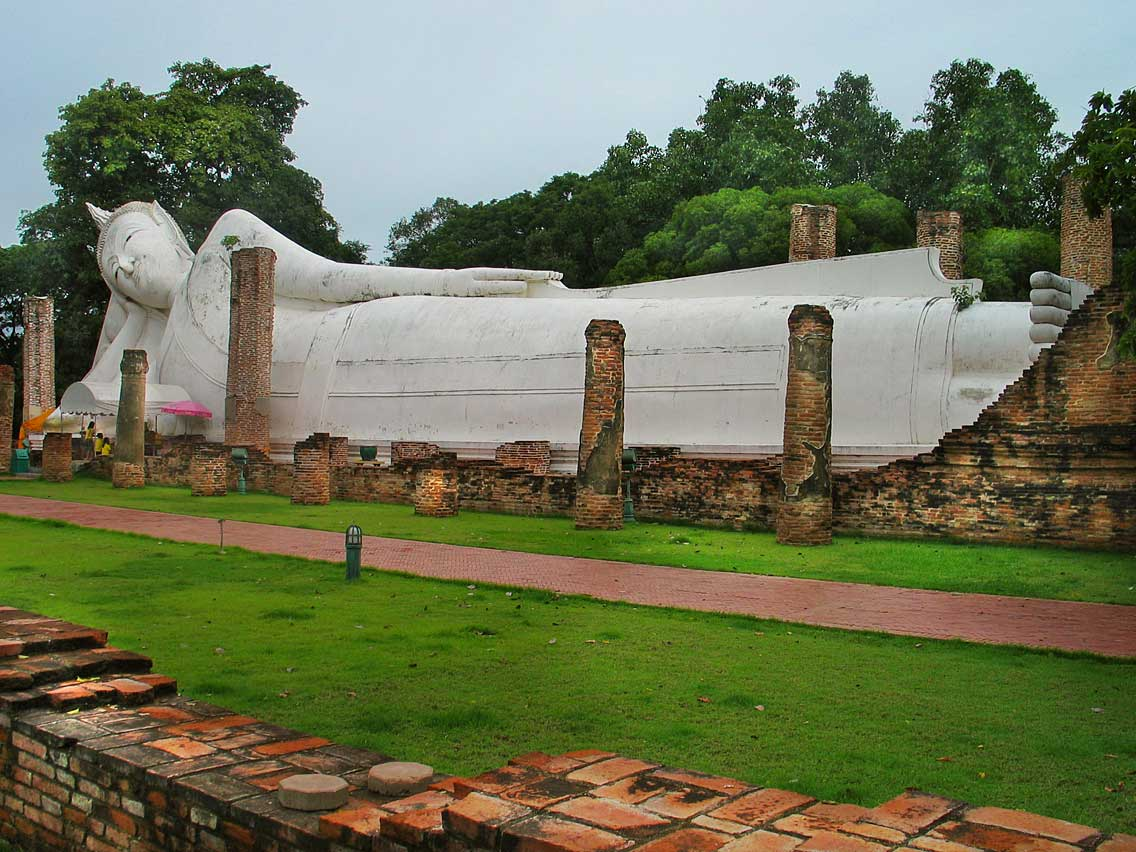 Reclining Buddha at Wat Khun Inthapramun, Ang Thong province, Thailand.